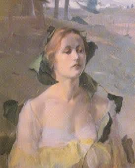 No title